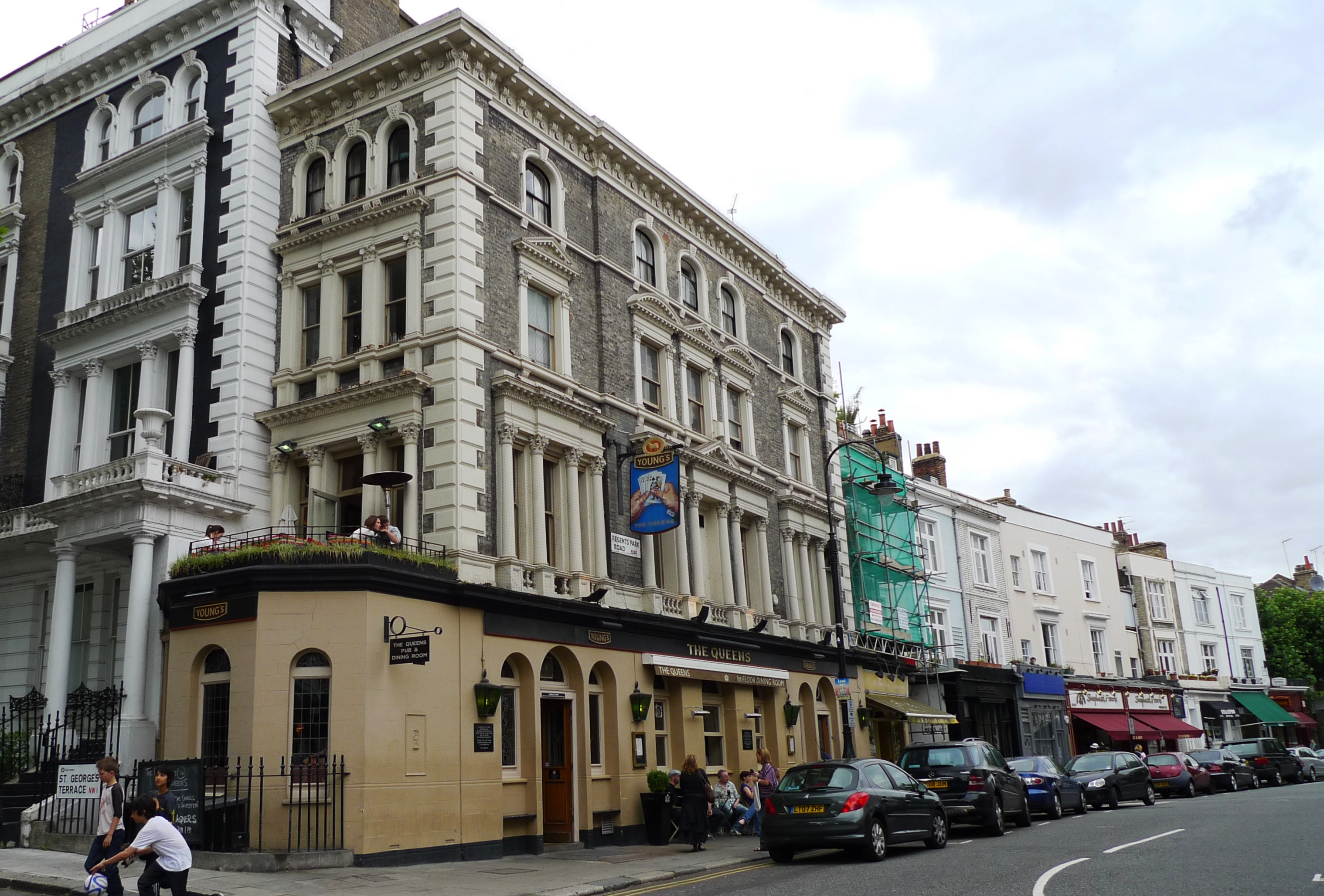 Grand former hotel just by Primrose Hill. Address: 49 Regents Park Road. Former Name(s): The Queen's Hotel. Owner: Young's [Geronimo Inns] (website and Young's website). Links: Fancyapint Pubs Galore Beer in the Evening Dead Pubs (history)